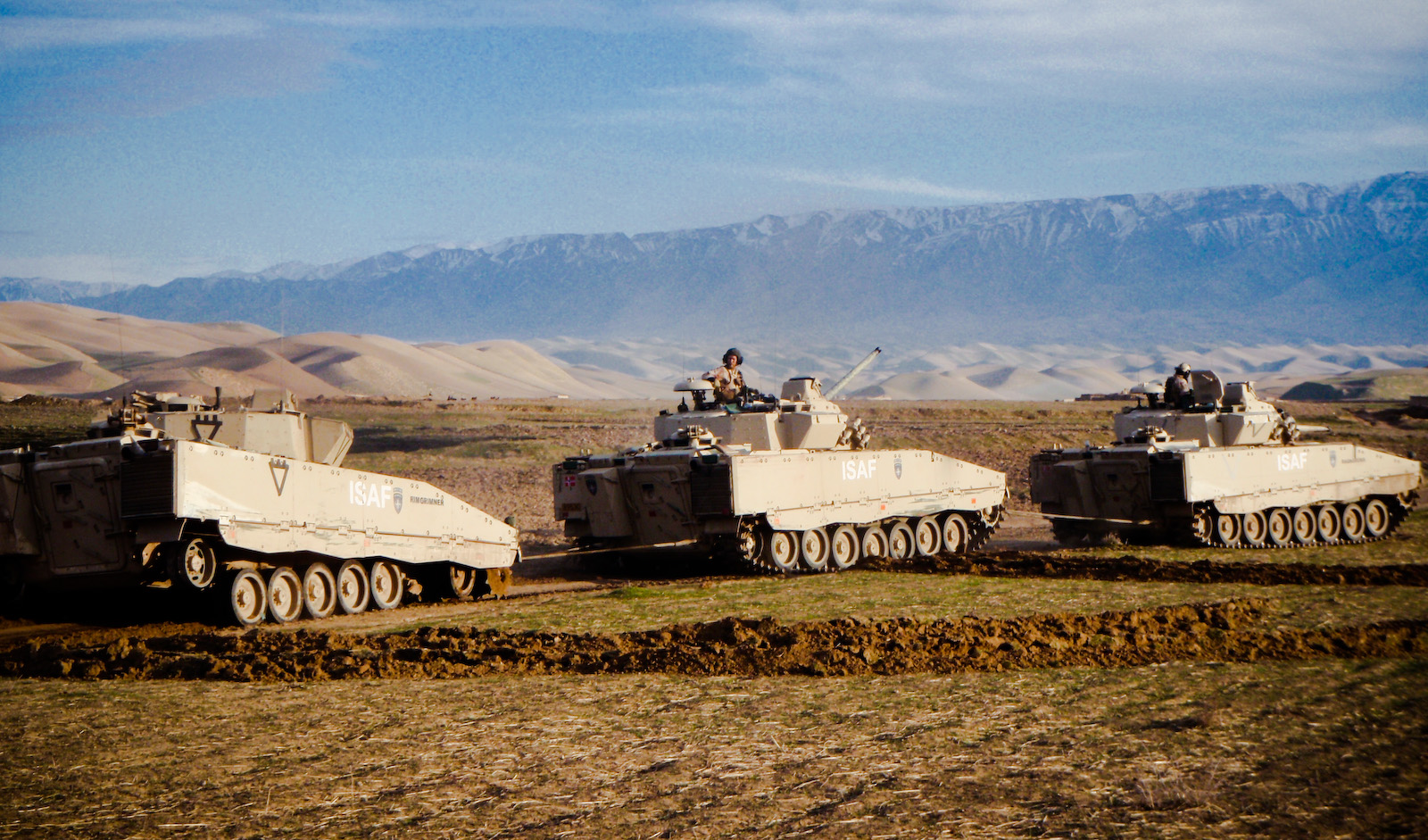 Norwegian soldiers in PRT Meymaneh rescues the damaged CV9030 from the IED attack in Ghormach, Faryab. The soldier from Telemark Battaljon Claes Joachim Ollson (22) lost his life in the attack, wounding two other soldiers in the same vechicle.